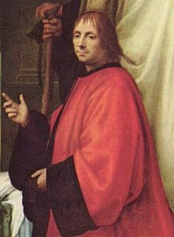 detail from the Madonna in Glory with Saints of Fra Bartolomeo